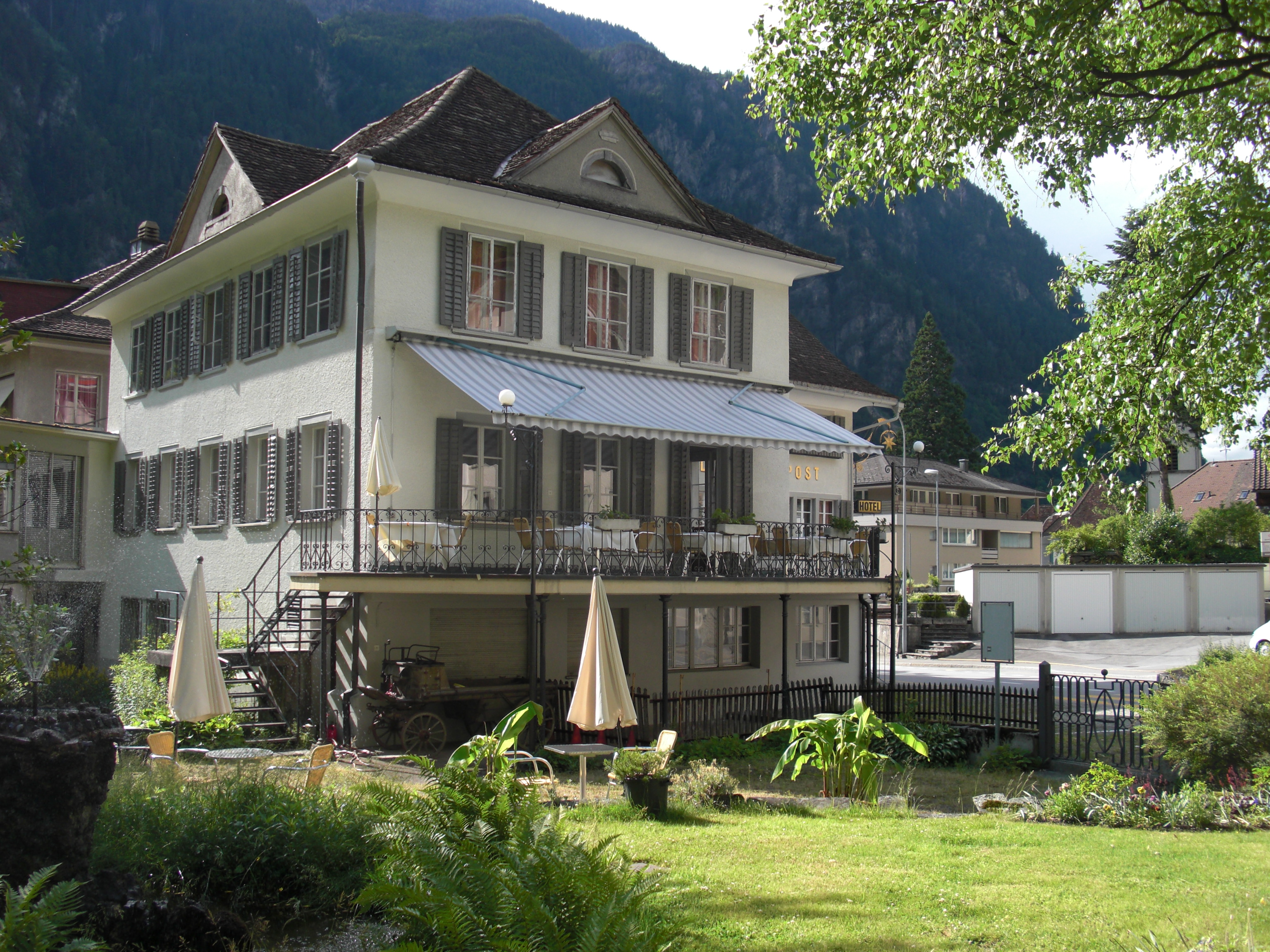 Hotel Stern und Post, Amsteg, Switzerland. View from the Garden (southeast).